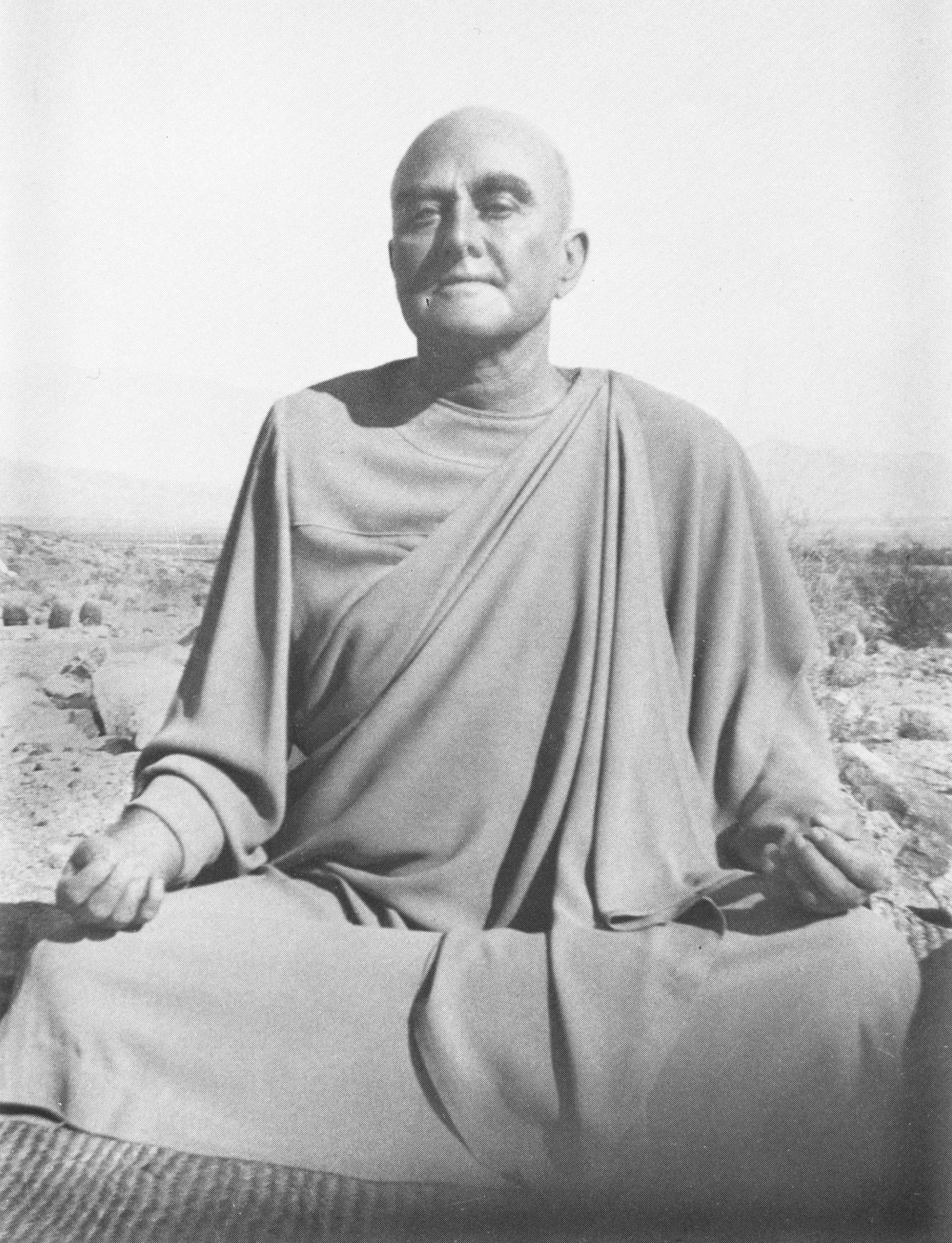 Rajarsi Janakananda (James J. Lynn). Devotee from Paramahansa Yogananda.